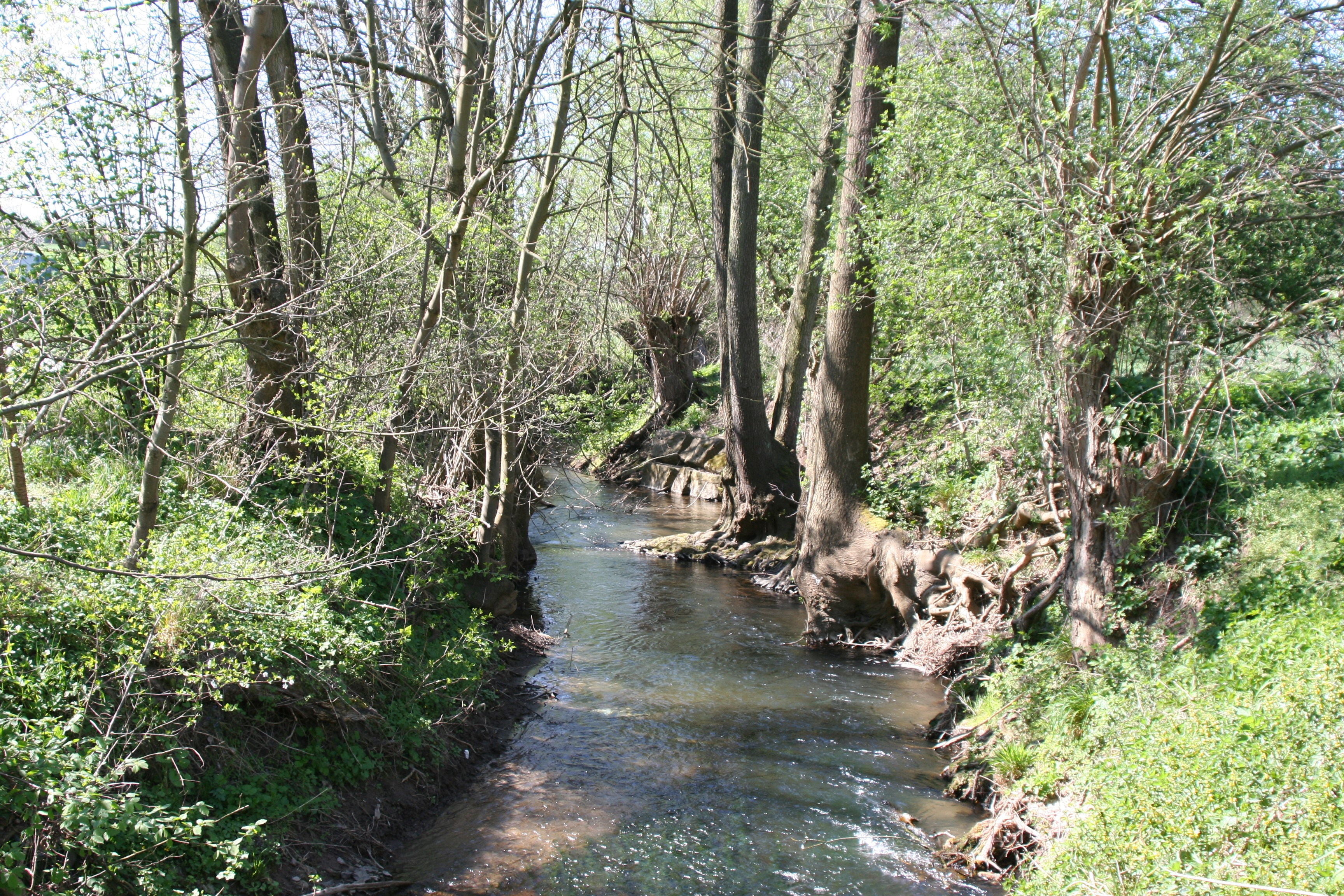 Sulm river near Obersulm-Sülzbach.